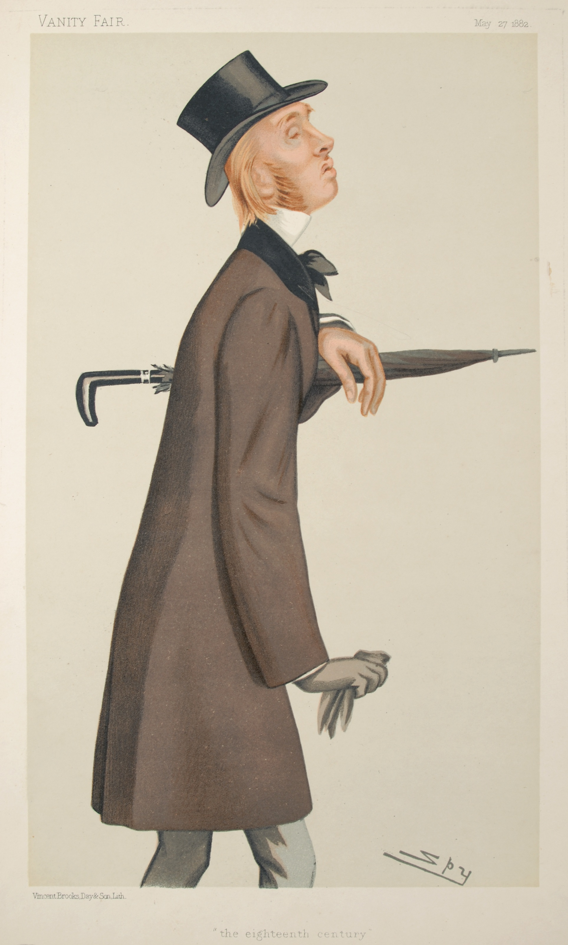 Men of the Day No.256: Caricature of William Edward Hartpole Lecky. Caption reads: "the eighteenth century"